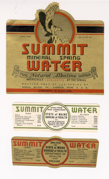 These labels from the late 1930s were created by the well-known New York Cartoonist L. Franklin VanZelm, who owned the spring at the time. The "Eagle" in the logo is representative of the fact that Summit Hill was a breeding ground for this raptor in the early 1900's (